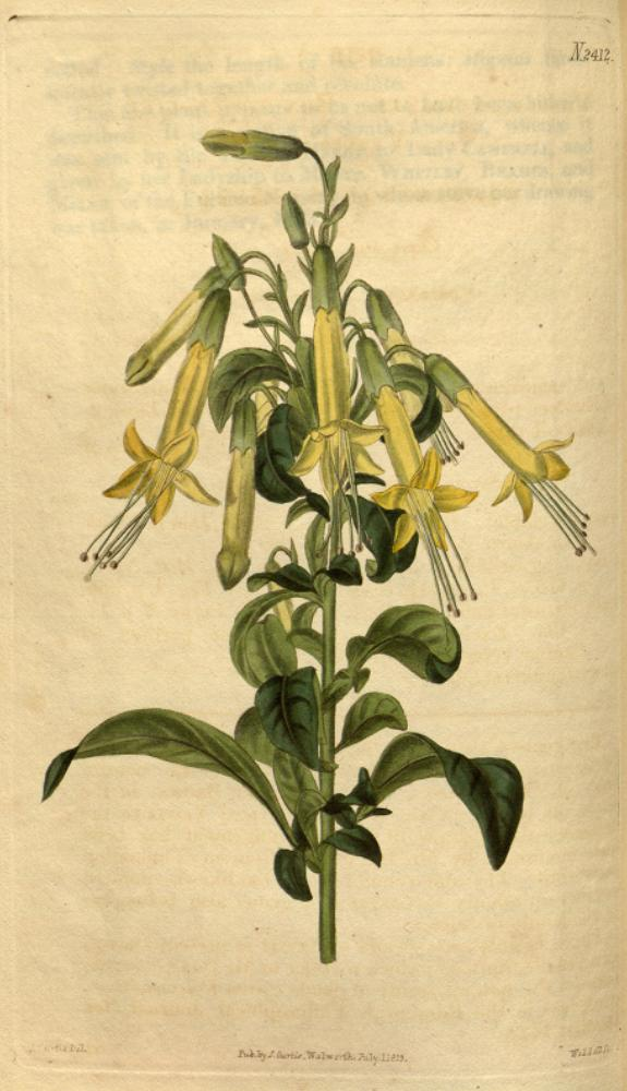 Illustration of Vestia foetida (Orig. Vestia lycioides)